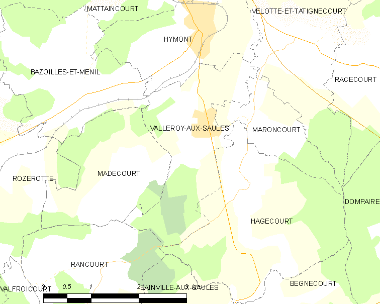 Map of French municipality Valleroy-aux-Saules